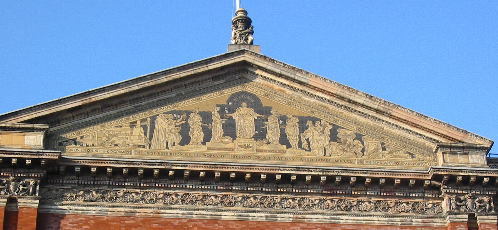 London